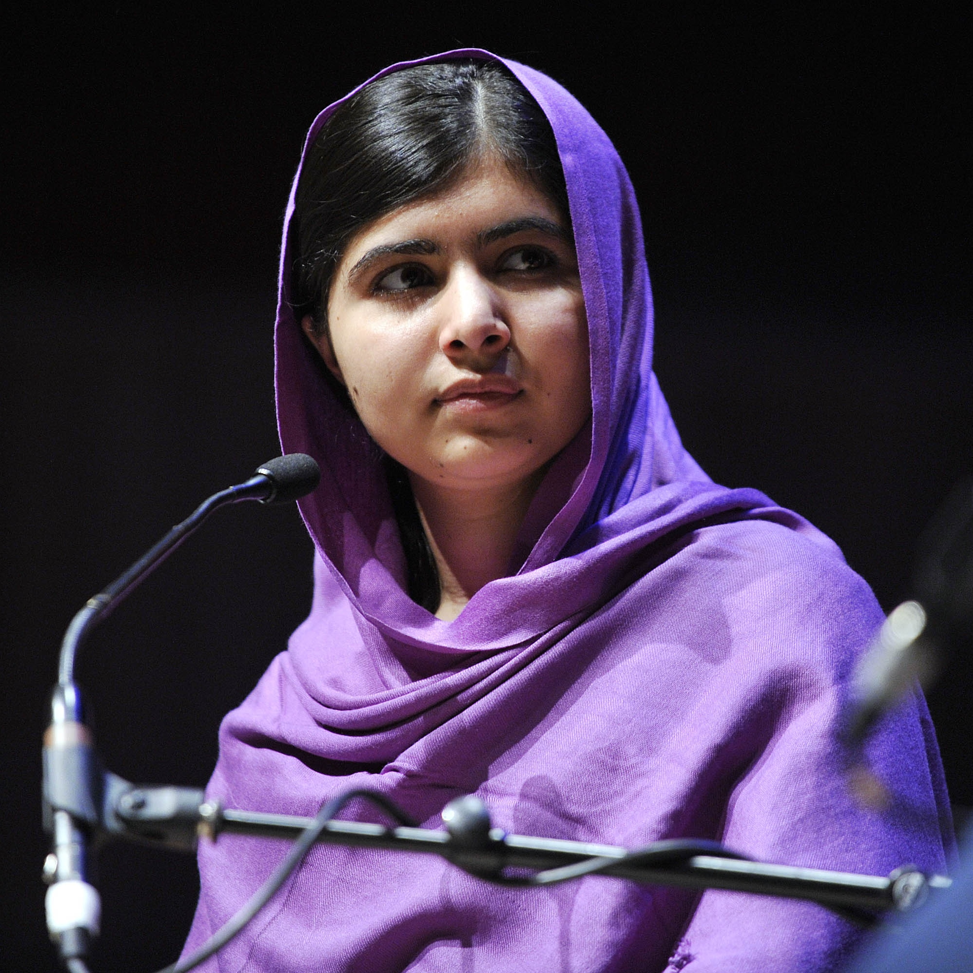 Malala Yousafzai is a campaigner who in 2012 was shot for her activist work. As part of WOW 2014, she talks about the systemic nature of gender inequality and bringing about change. More on this event